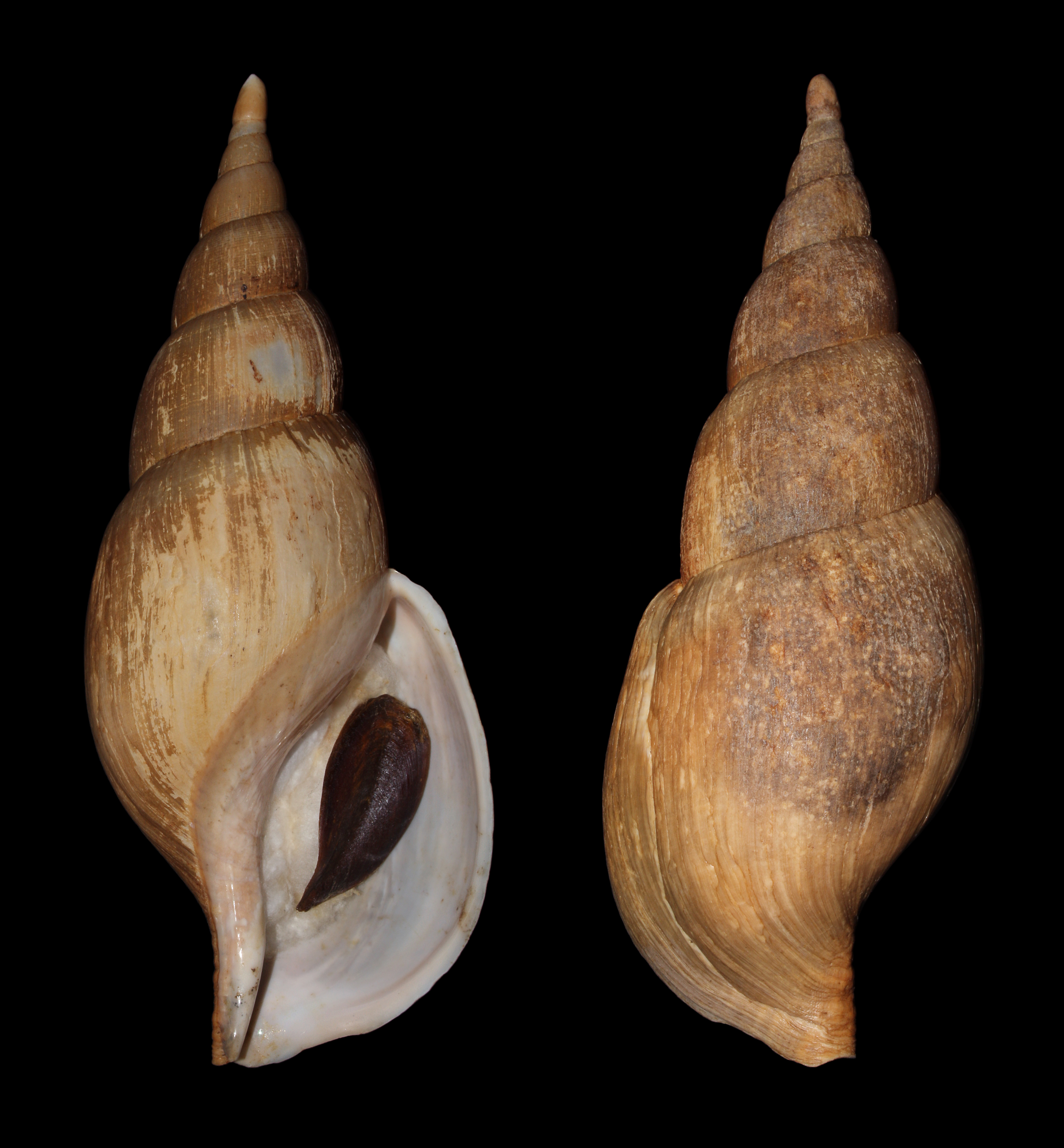 Neptuneopsis gilchristi G. B. Sowerby III, 1898. Cape Agulhas, South Africa. Endemic species. With operculum, length 20.0 cm. Acquired in collection 1992.